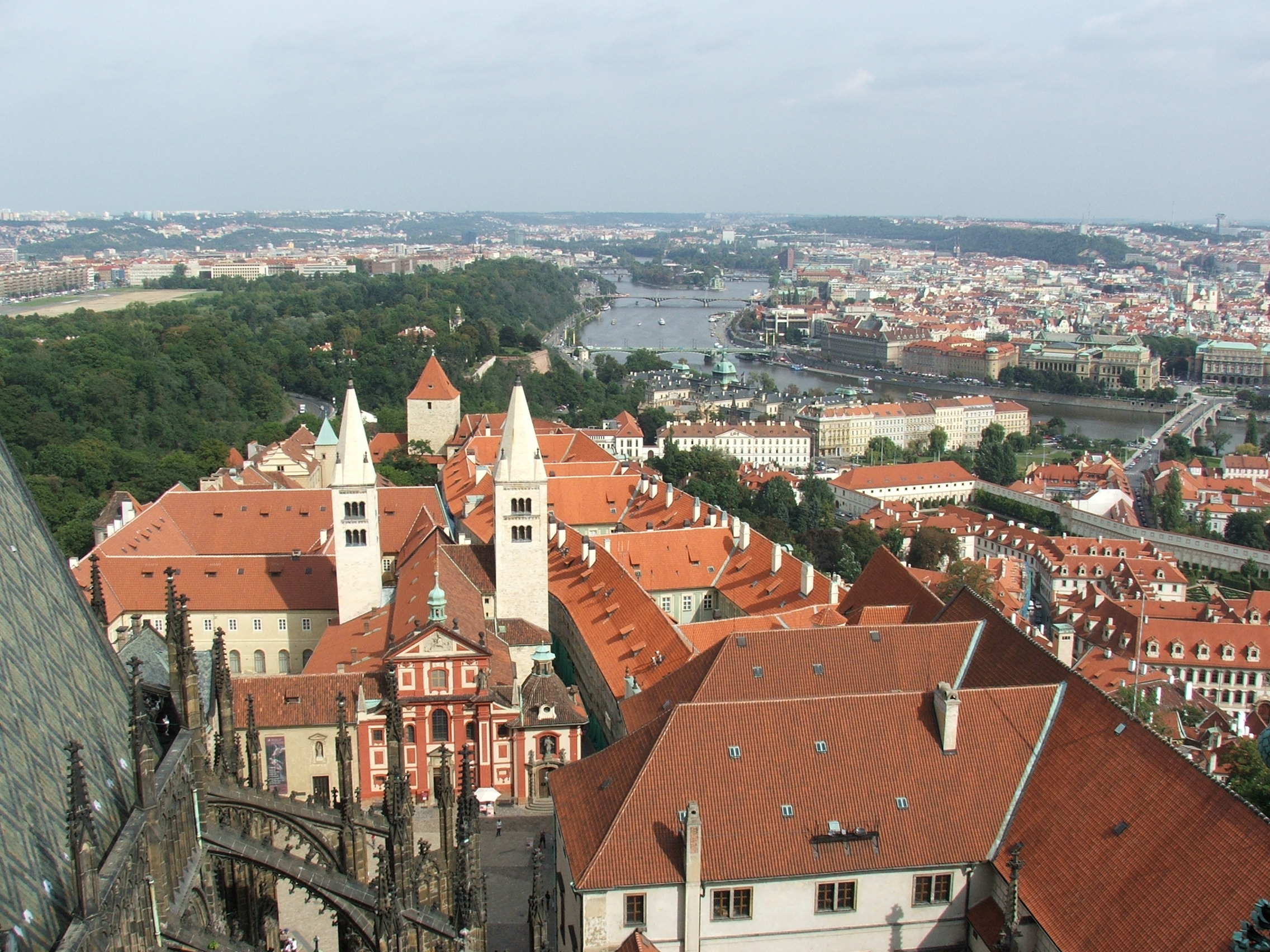 St George basilica in Prague Castle as seen from Prague Castle St. Vitus cathedral - Prague, Czechia.